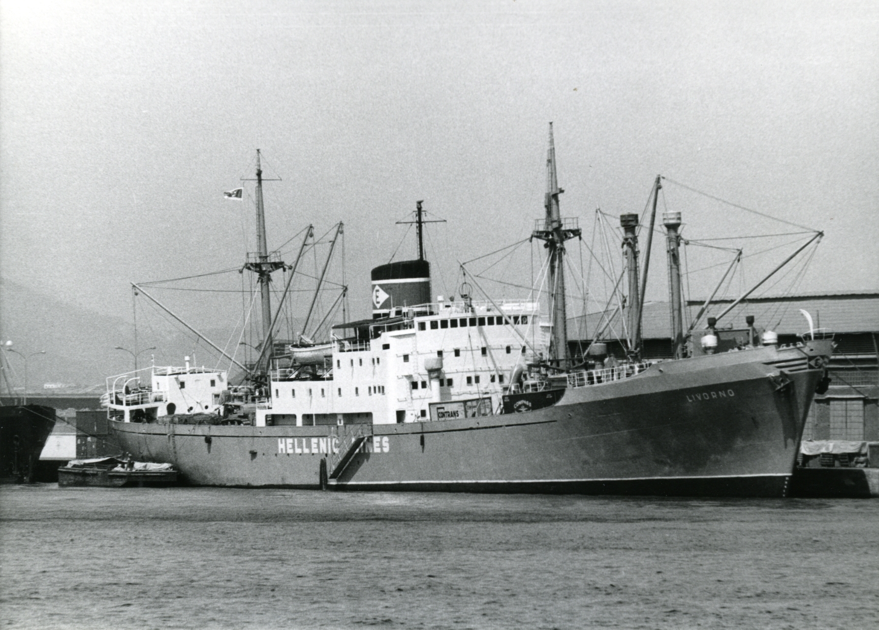 General cargo ship LIVORNO (IMO 5344554) built at shipyard H.C. Stülcken Sohn, Hamburg (yard № 808, launched: 15-07-1952, delivered: 11-09-1952) as ADELE for Reederei Zürich AG, Basel, later names: 1952 SUN-ADELE, 1953 SUNADELE, 1966 ADELE, 1966 LIVORNO, 06-08-1980 BU Kaohsiung; photo by J. Robert Boman (1926-2002), copyright owned by Sjöhistoriska museet.